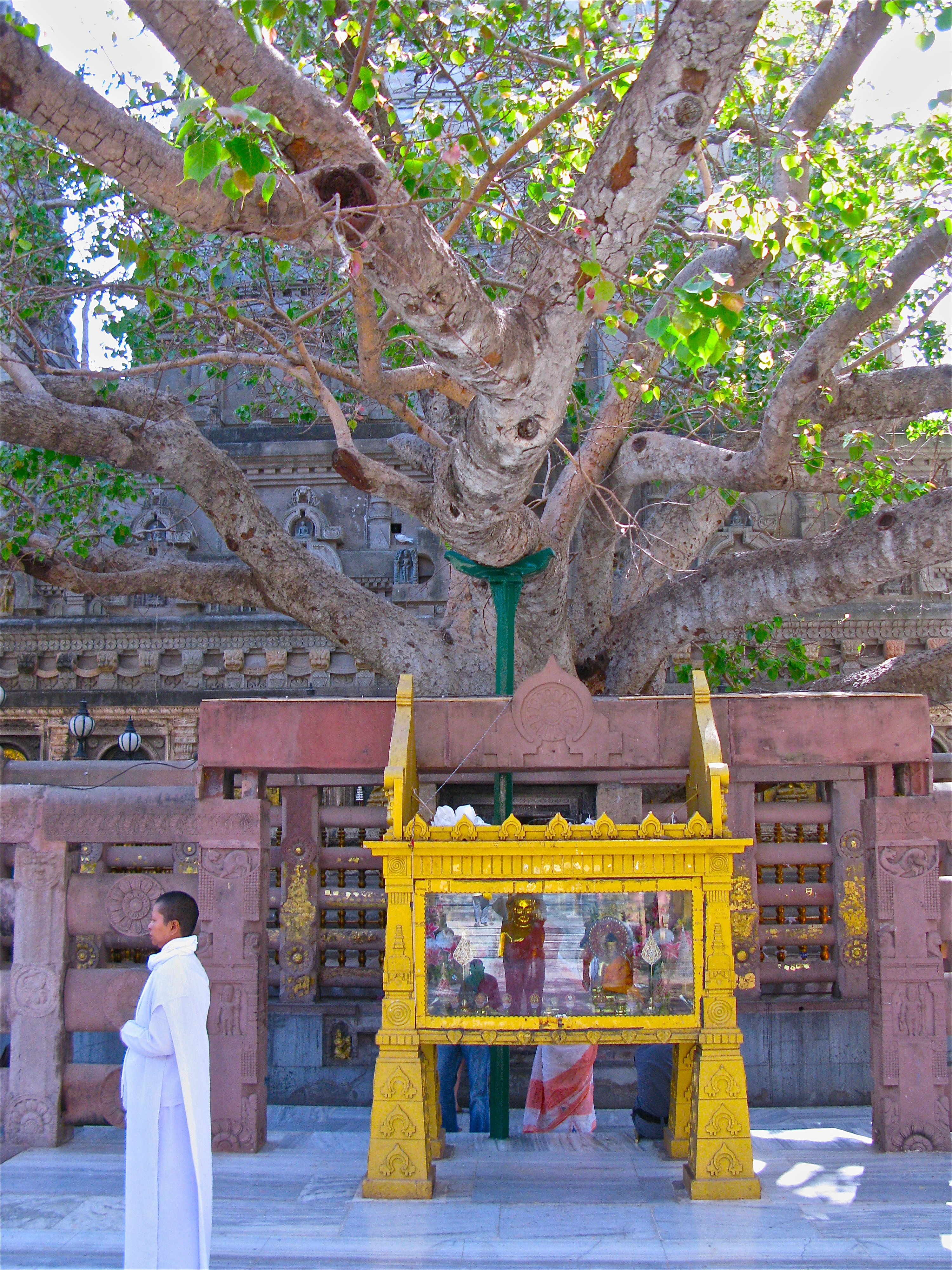 The Mahabodhi tree in Bodh Gaya.